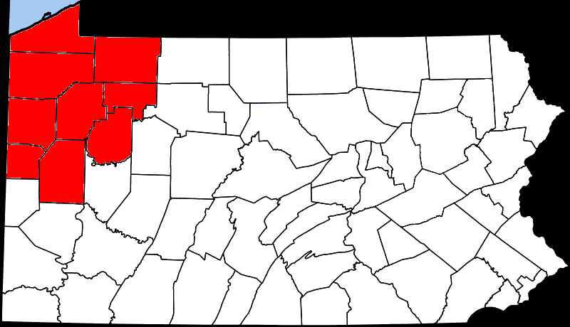 altered version of (Public domain map courtesy of The General Libraries, The University of Texas at Austin, modified to show counties relevant to article. Released under GFDL. See Wikipedia:U.S. county maps.)